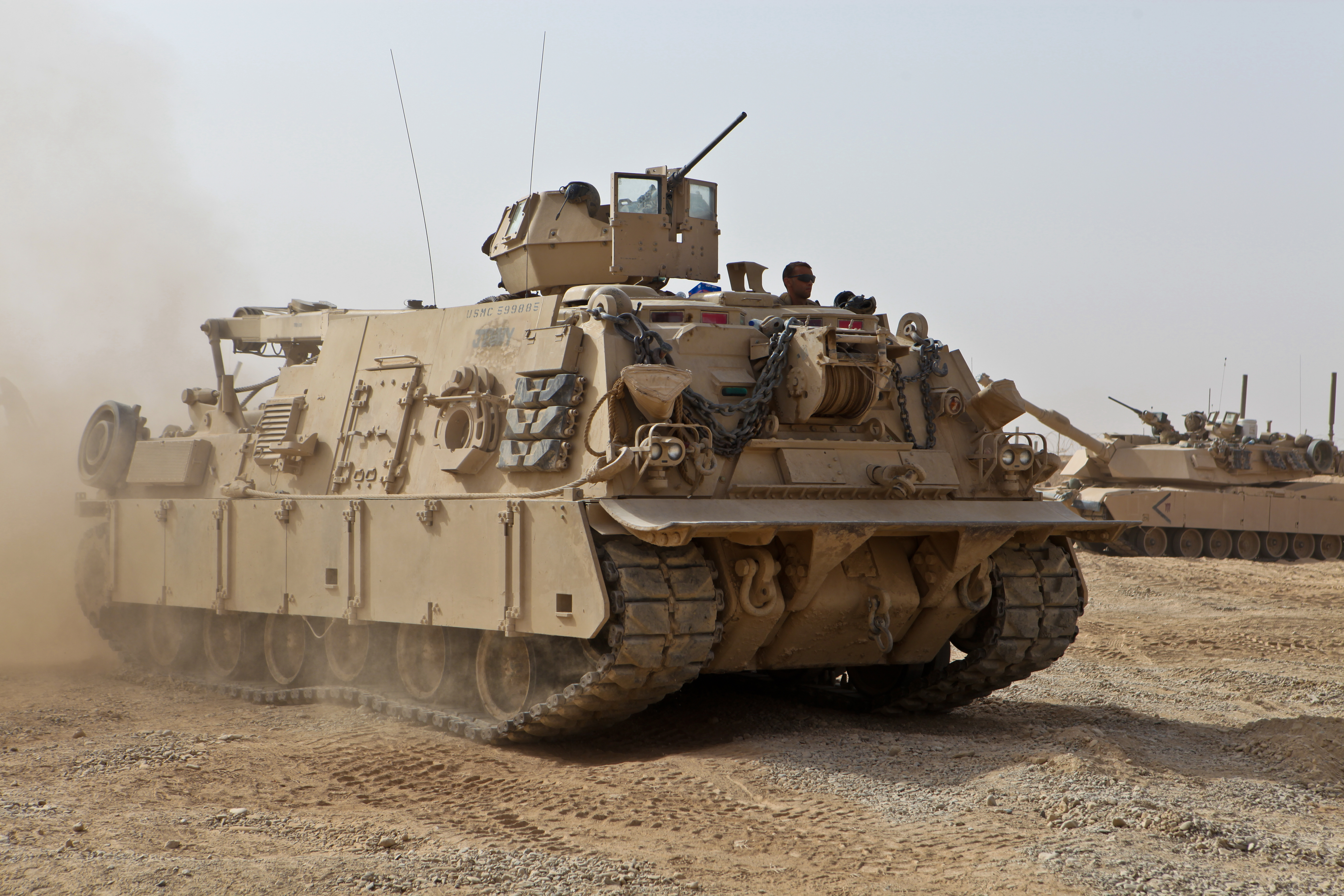 COMBAT OUTPOST SHIR GHAZAY, Helmand province, Afghanistan -- A M88A2 Hercules recovery vehicle rolls through the COP after a recovery mission. A V-12 twin turbo diesel engine, main winch, and pulley on the vehicle allow them to confidently retrieve any tank or other combat vehicle that may go down in the combat zone.